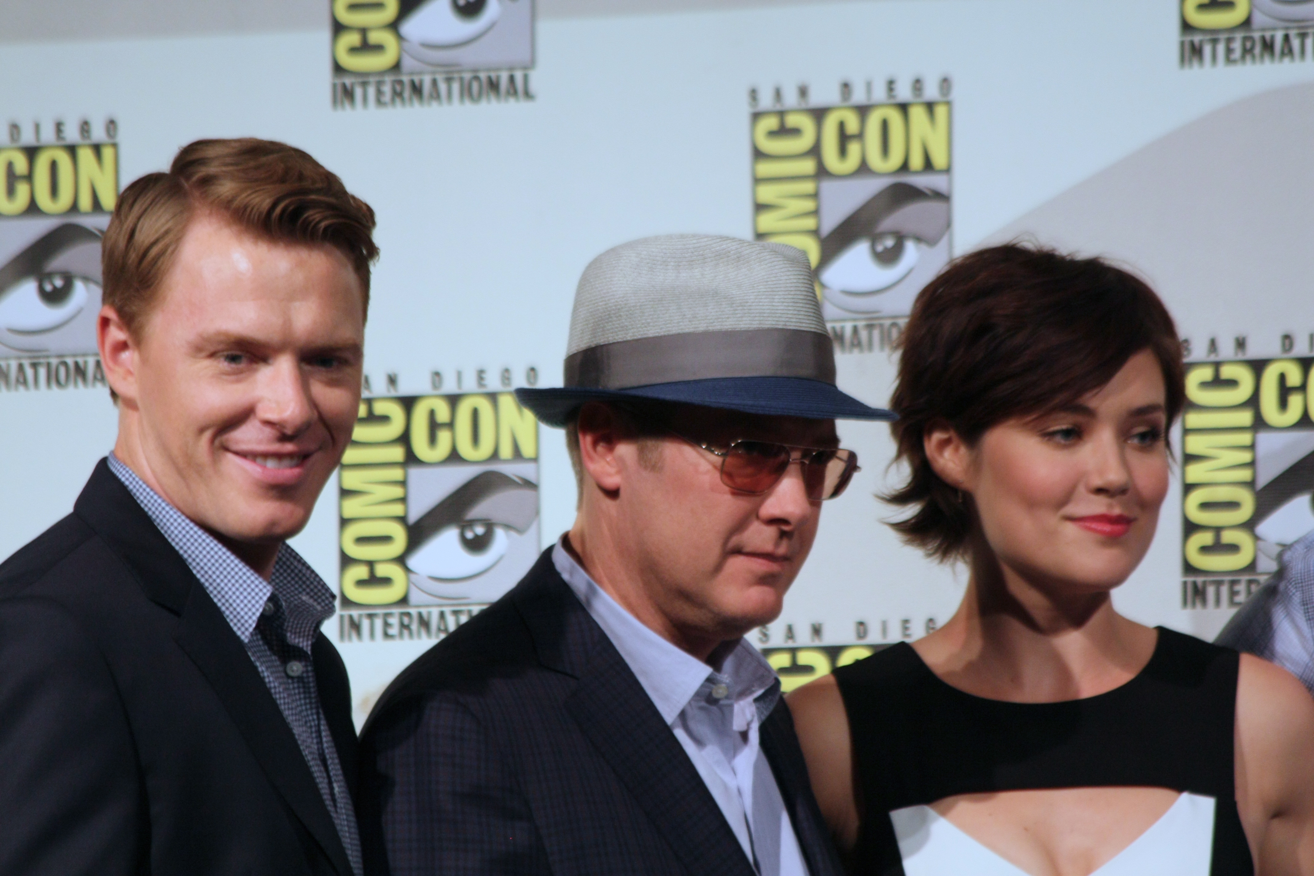 Diego Klattenhoff (Donald Ressler), James Spader (Red), Megan Boone (Elizabeth Keen) The Blacklist Panel at the 2013 Comic Con